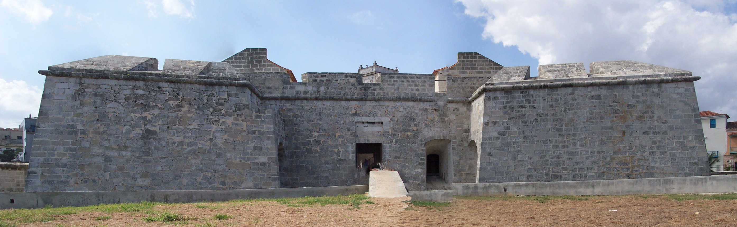 (poorly) Stiched panorama of Castillo de la Real Fuerza in Havana